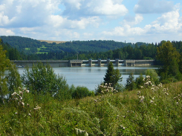 Kružberk reservoir in the Moravian–Silesian Region in the Czech Republic.